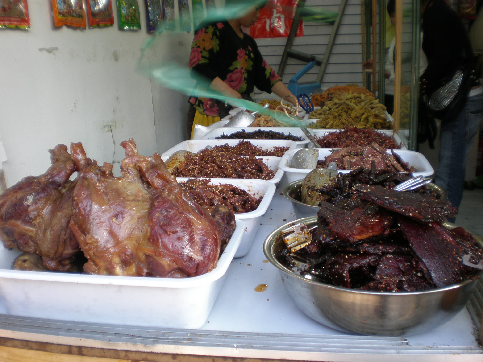 Yak meat being sold by the Dried Meat Yak store on Square Street in the Old Town of Lijiang, Yunnan. See Image:Dried Meat Yak store, Square Street 1.JPG